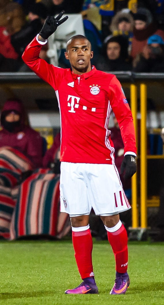 Douglas Costa with FC Bayern Munich in a Champions League game against FC Rostov.